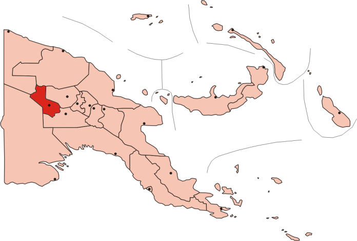 Hela Province - Papua New Guinea